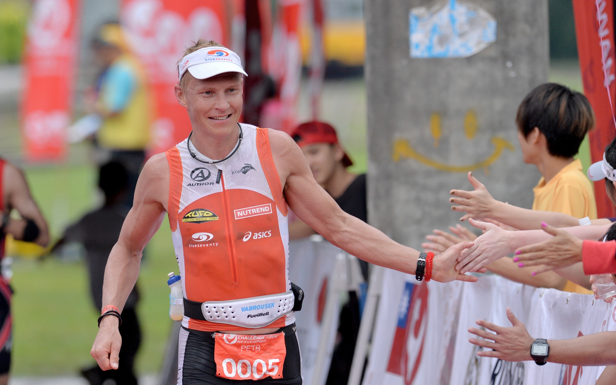 Petr Vabroušek finishing fourth at Challenge Taiwan 2013